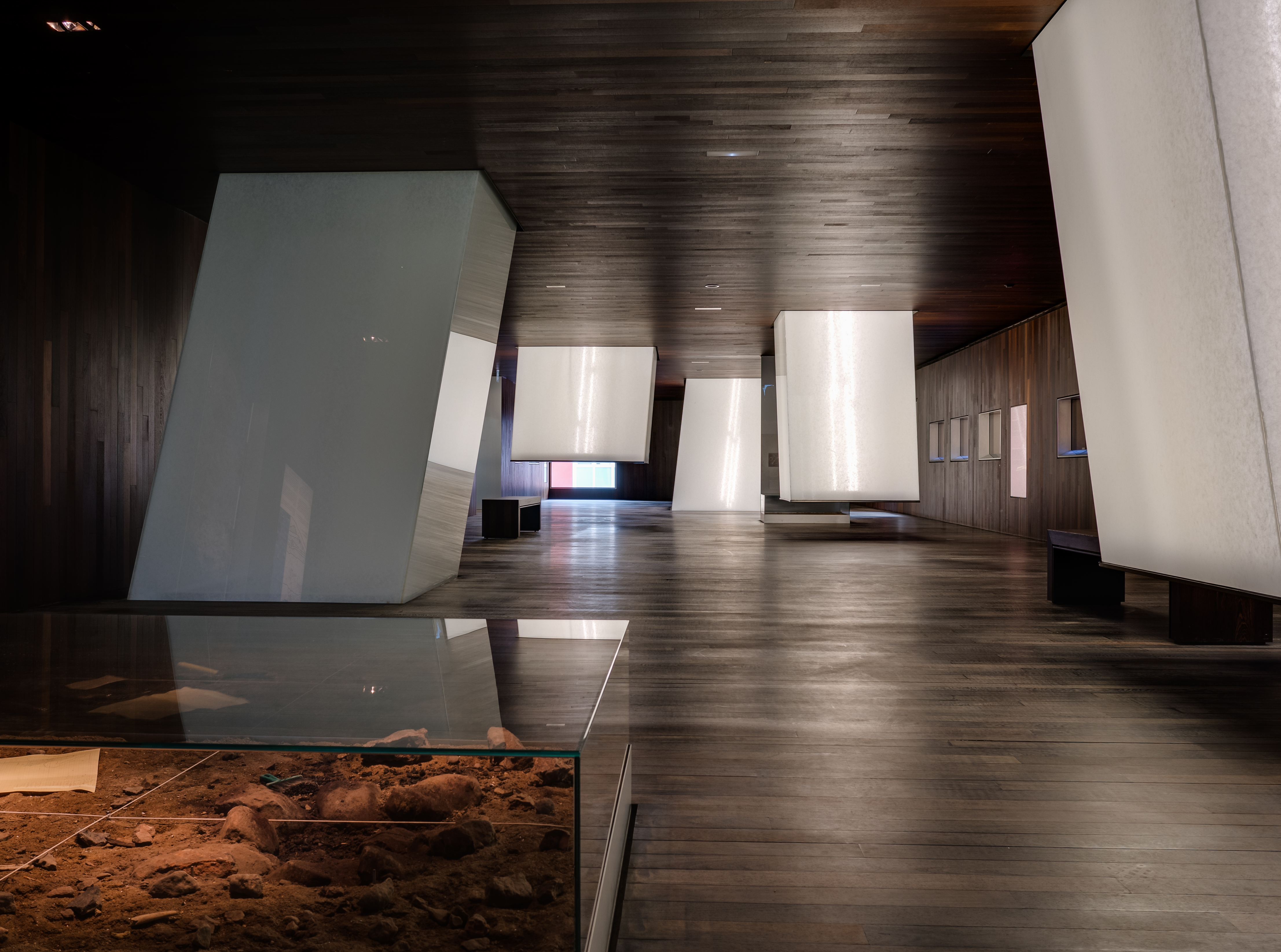 Inside view of the Archeological Museum of Vitoria-Gasteiz. Basque Country, Spain